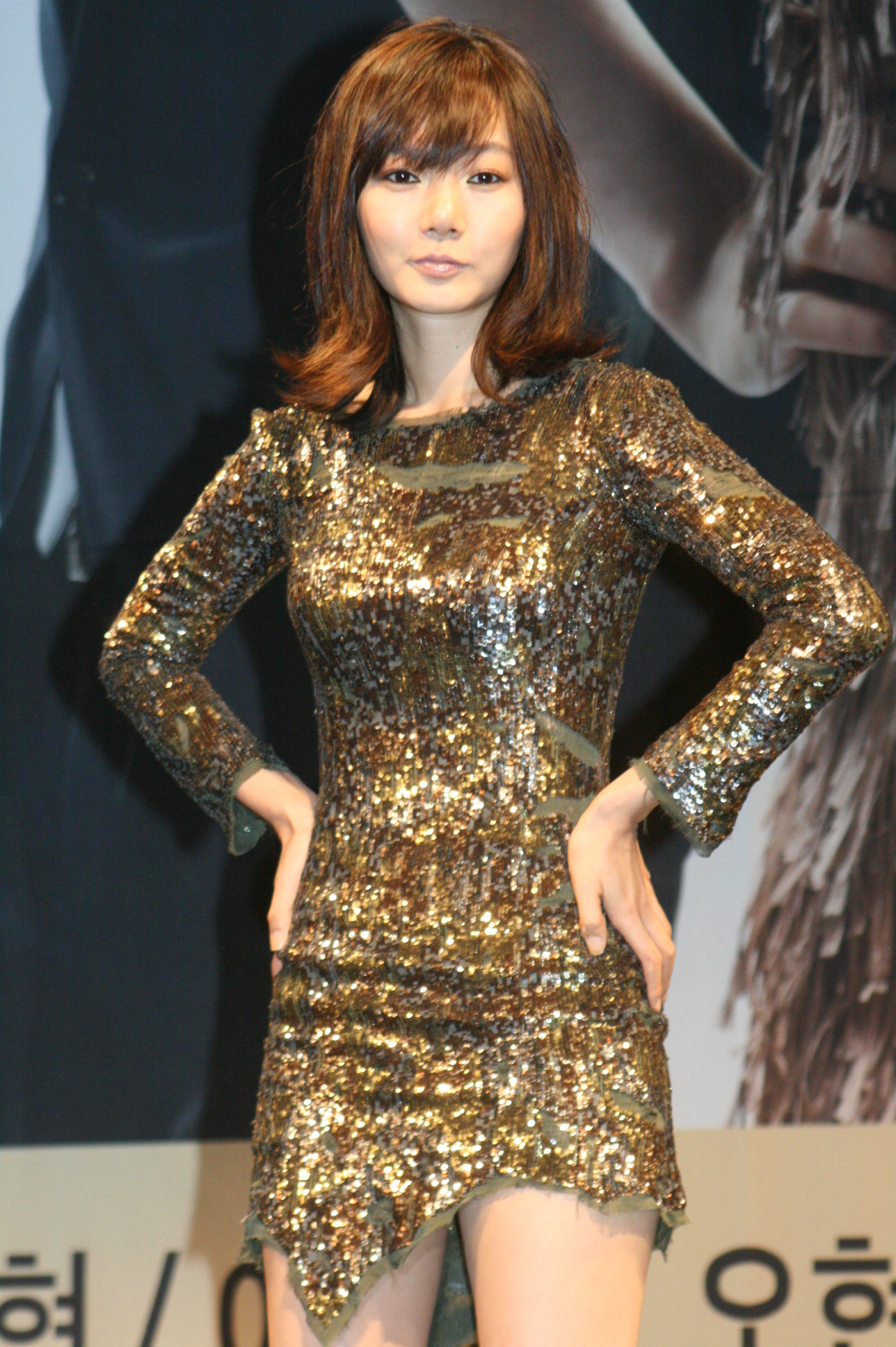 Bae Doona at the press conference of MBC Gloria.